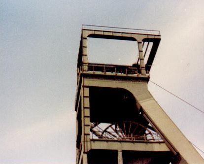 Headframe of Haverlahwiese shaft No. 1.